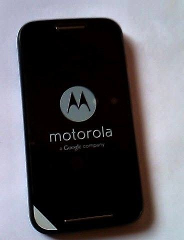 A front end shot of Moto E Black